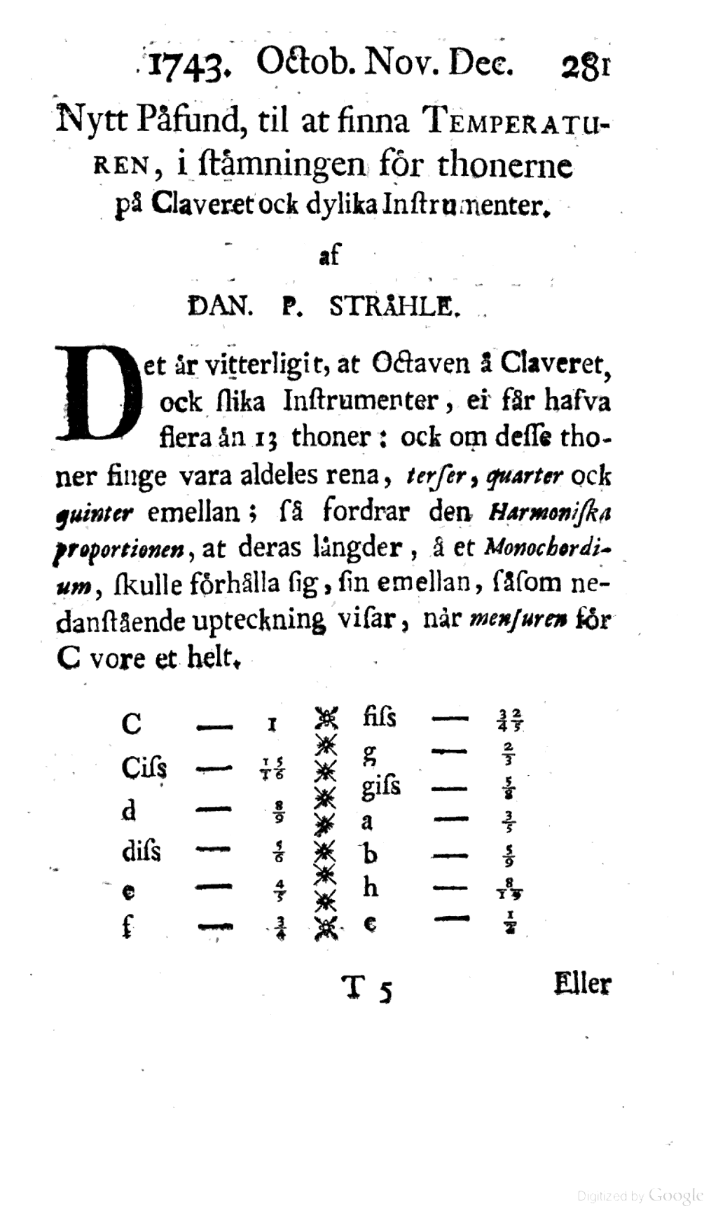 first page from Daniel P. Stråhle Nytt Påfund, at finna Temperaturen i stämningen (New invention, how to find the temperature in the tuning) showing title, author, date and page, and part of the article. Printed by the Swedish Royal Academy of Sciences.